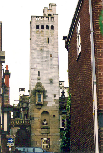 Gaskell Memorial Tower, Knutsford, Cheshire. A view of the Memorial Tower on King Street, in remembrance of Elizabeth Gaskell an outstanding Victorian novelist. She lived in Knutsford with her aunt and was later married to William Gaskell at Knutsford Parish Church. The titles of her novels are listed on the side of the tower.